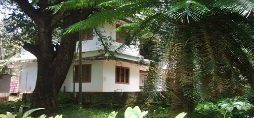 tharavad